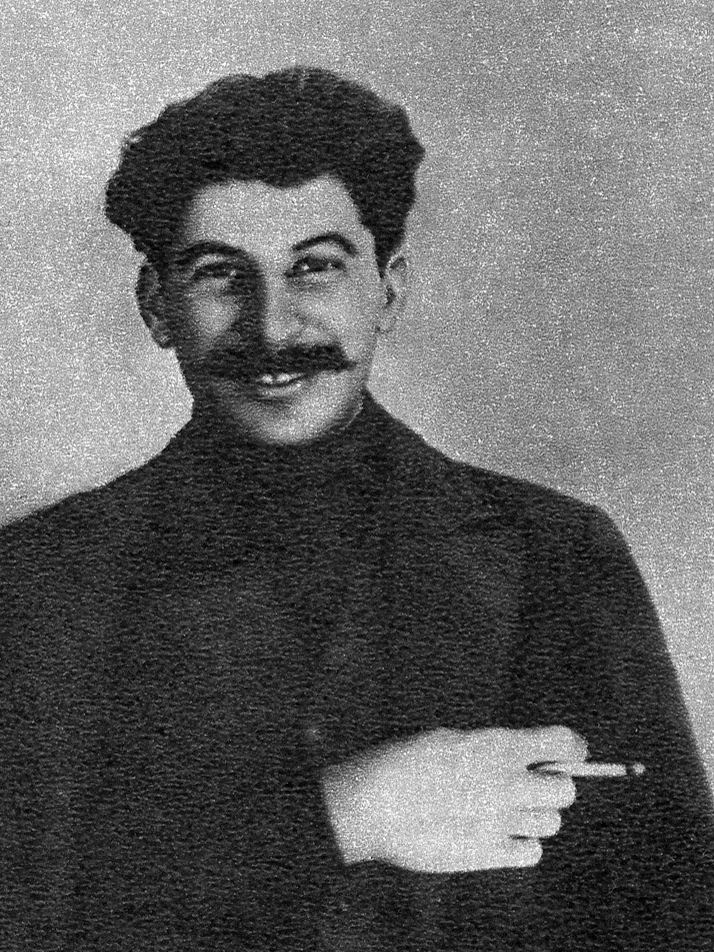 Joseph Stalin, apparently in exile in Siberia. The photograph was reprinted in the United States in Life on 29 October 1951 at p. 109[1] with the caption "In 1915 Stalin, whose nickname was 'Soso,' looked like carefree fop during his last Siberian exile as political offender".